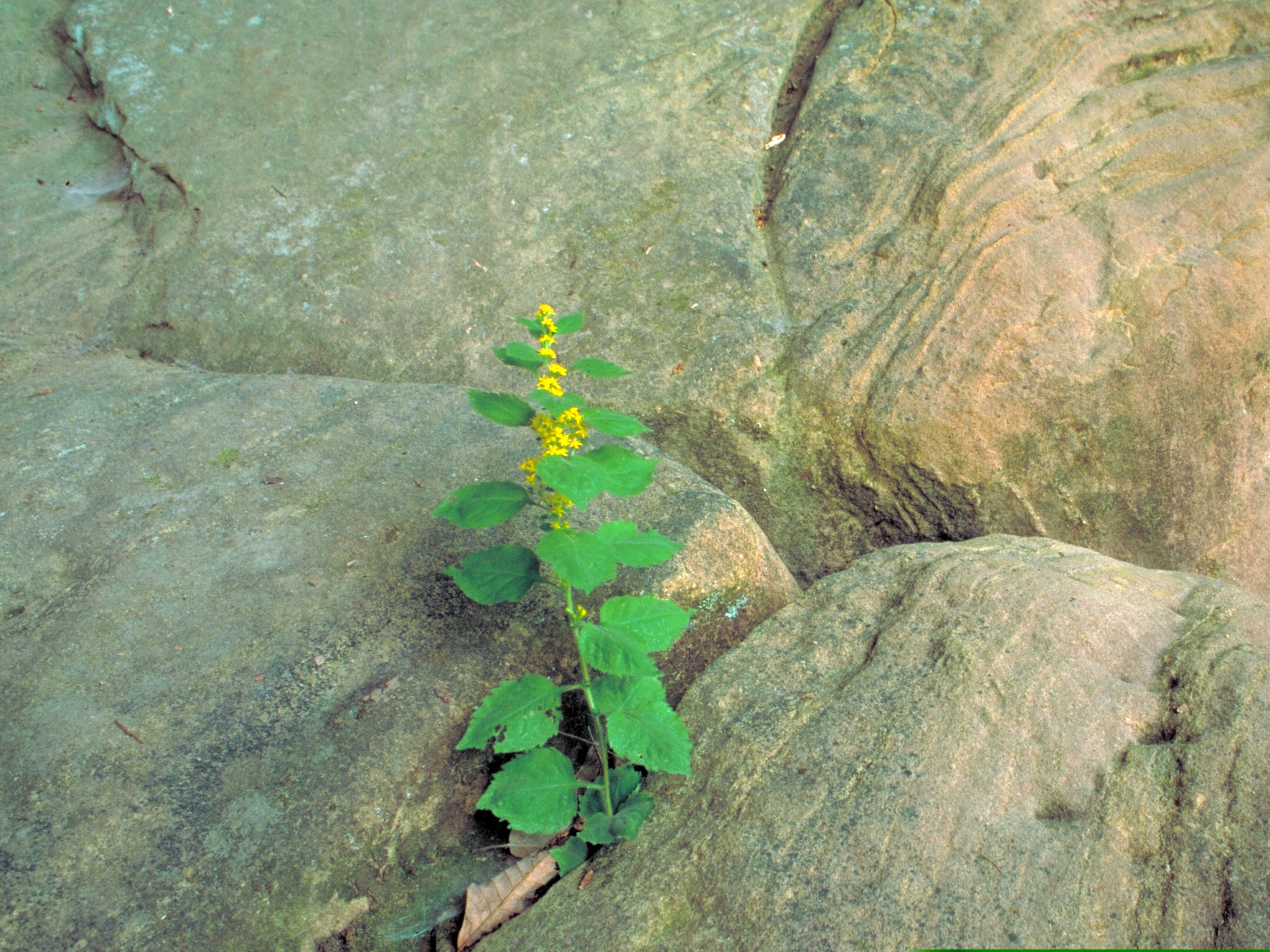 White-haired Goldenrod (Solidago albopilosa)